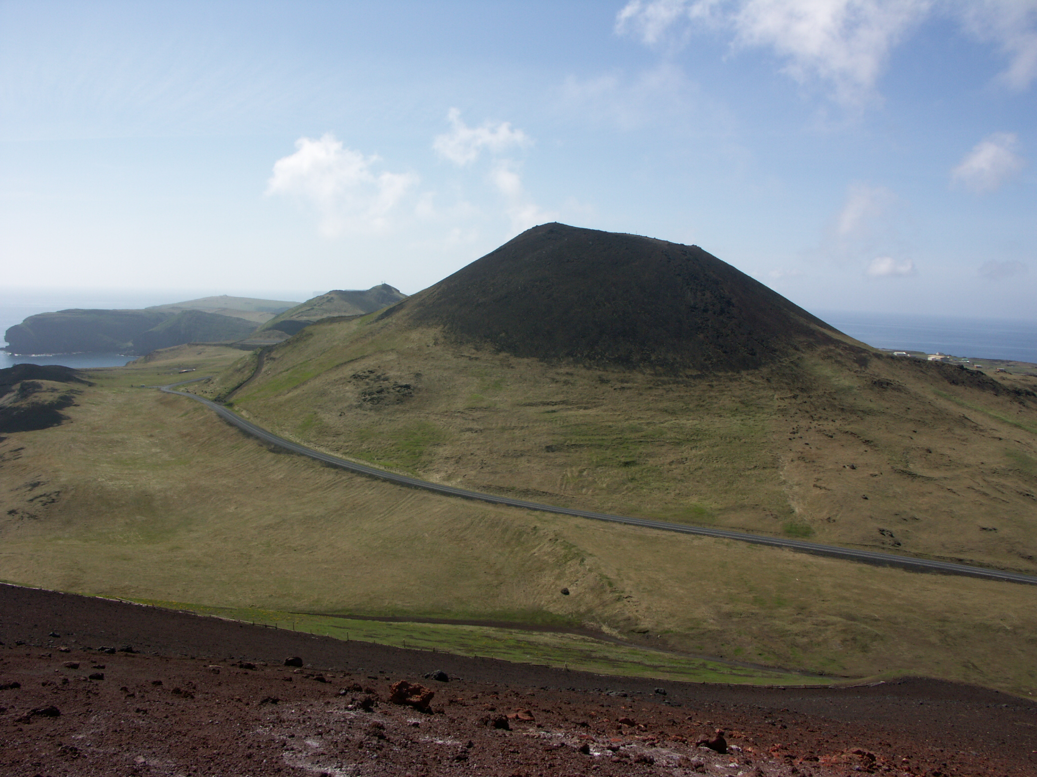 The cone of Helgafell volcano seen from the summit rim of Eldfell volcano, island of Heimaey, Vestmannaeyjar, Iceland